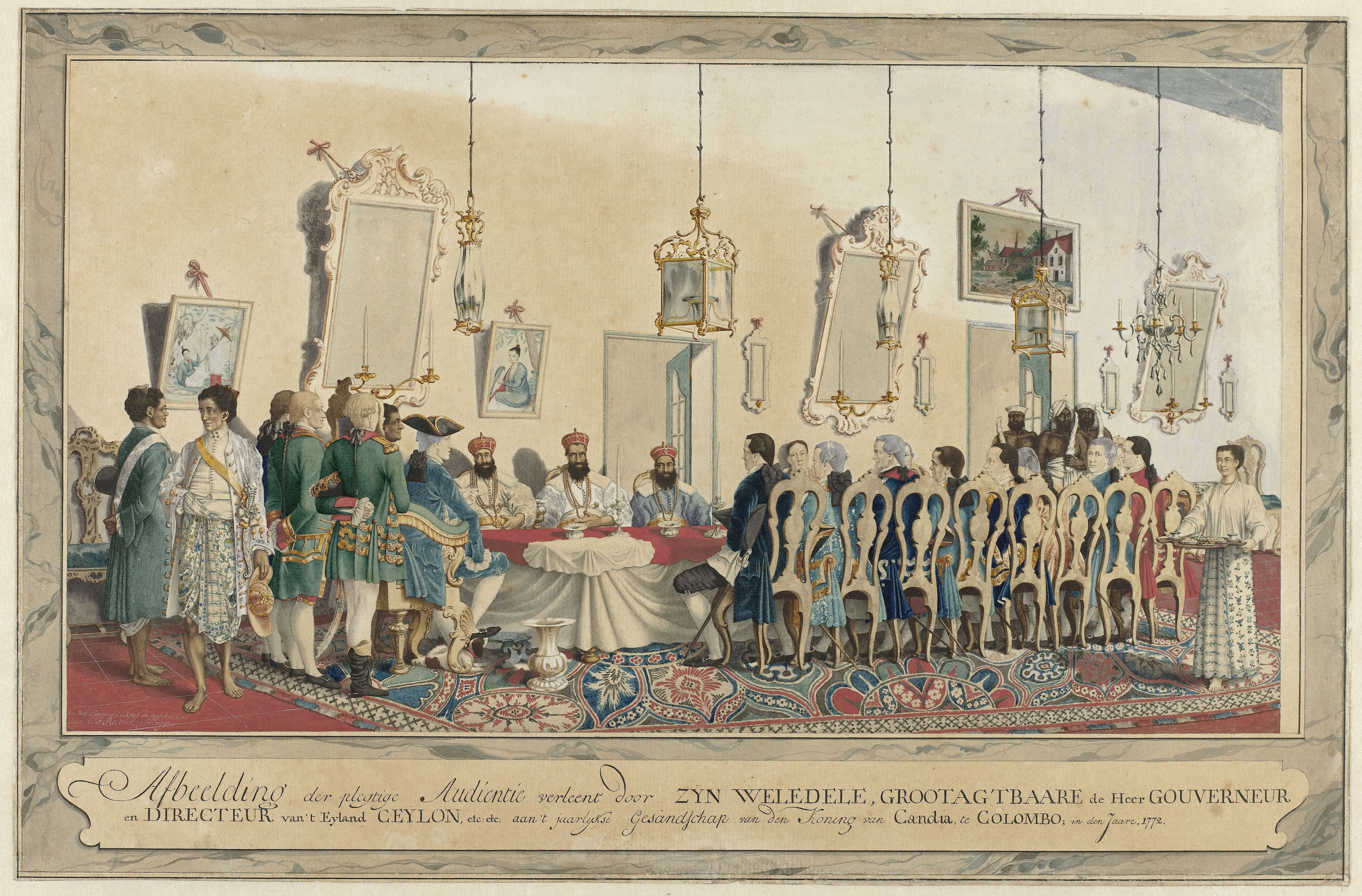 Reception of the envoys of the king of Kandy by governor Imam Falck, Carel Frederik Reimer, 1772